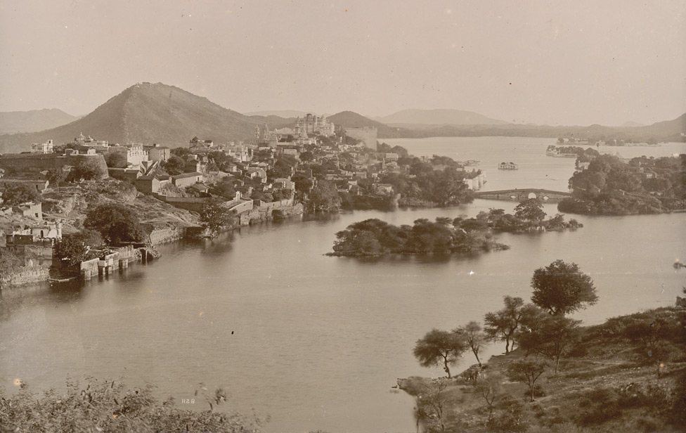 Photograph of the city and lake at Udaipur in Rajasthan, taken by Raja Deen Dayal & Sons in the 1880s, from the Curzon Collection: 'Views of places proposed to be visited by Their Excellencies Lord & Lady Curzon during Autumn Tour 1902'. Lord Curzon served as Viceroy of India between 1899 and 1905. Udaipur was chosen by Maharana Udai Singh (r.1567-72) of the Sisodia Rajputs as the new capital of the Mewar State in the mid-16th century. This followed the sacking and possession of the previous capital, the hilltop fortress of Chittorgarh, by the Mughal Emperor Akbar (r.1556-1605) in 1567. Udaipur lies in a valley beside three artificial lakes, the largest of which is Lake Pichola. This is a general view looking across Lake Pichola towards the city with the hills in the distance. The white domes and towers of the massive City Palace (c.1567-c.1734) rise above the rooftops. Beyond the bridge are the island palaces of the Jagmandir and Jagniwas, in the main part of the lake.